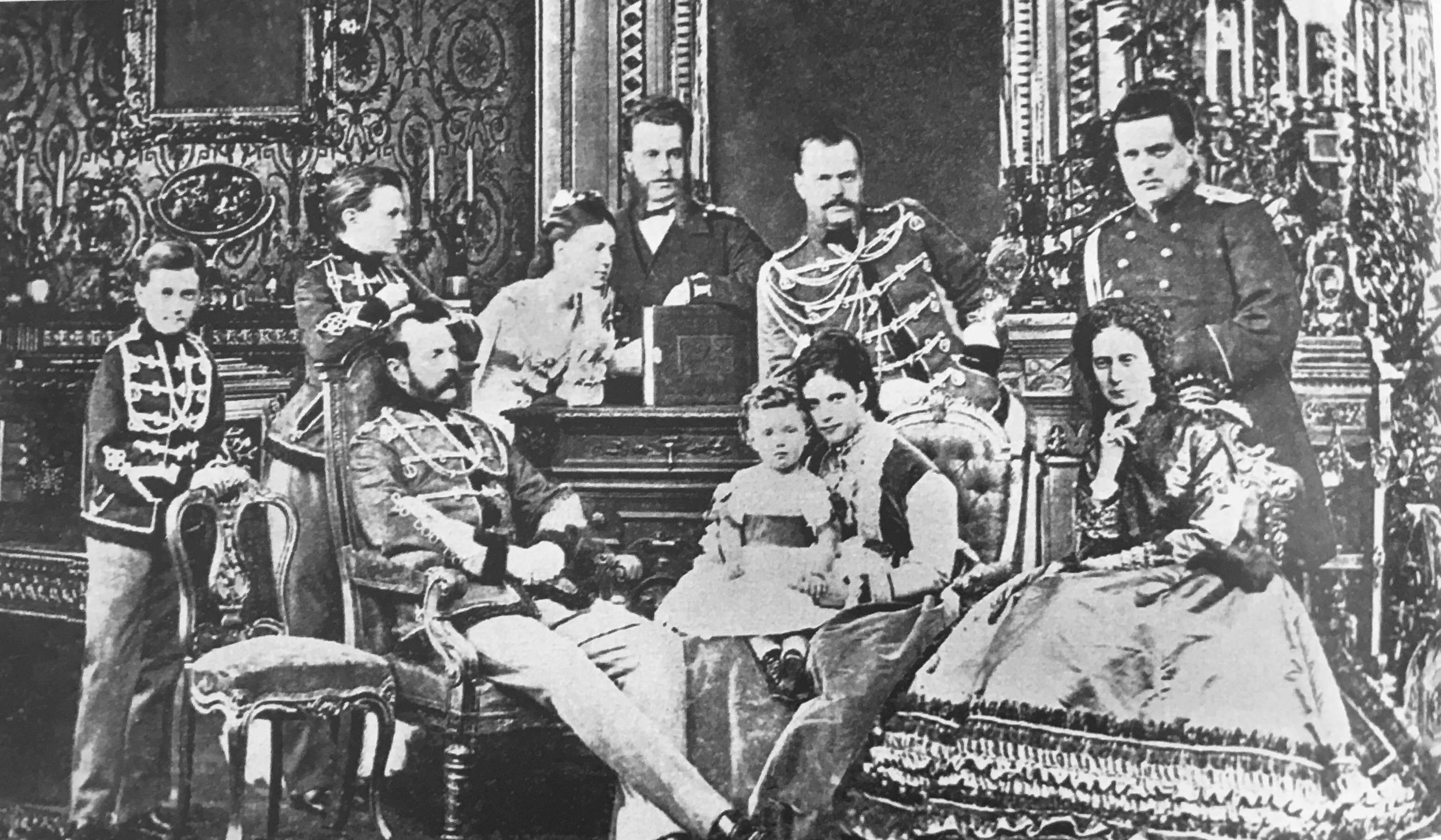 Tsar Alexander II of Russia with Hits wifi and children.